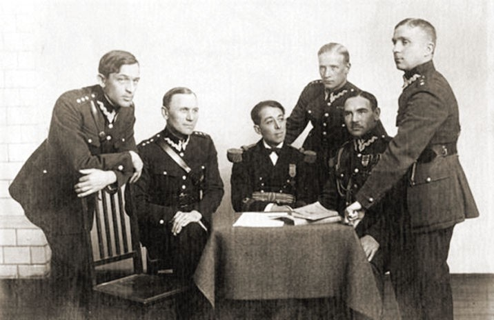 Officers of the Biuro Szyfrów (Cipher Bureau) - Polish General Staff's Second Department's organizational unit charged with SIGINT and both cryptography (the use of ciphers and codes) and cryptanalysis (the study of ciphers and codes, particularly for the purpose of "breaking" them). From the left: Jakub Plezia, Jerzy Suryn, Yamawaki Masataka, Paweł Misiurewicz, Franciszek Pokorny, Maksymilian Ciężki